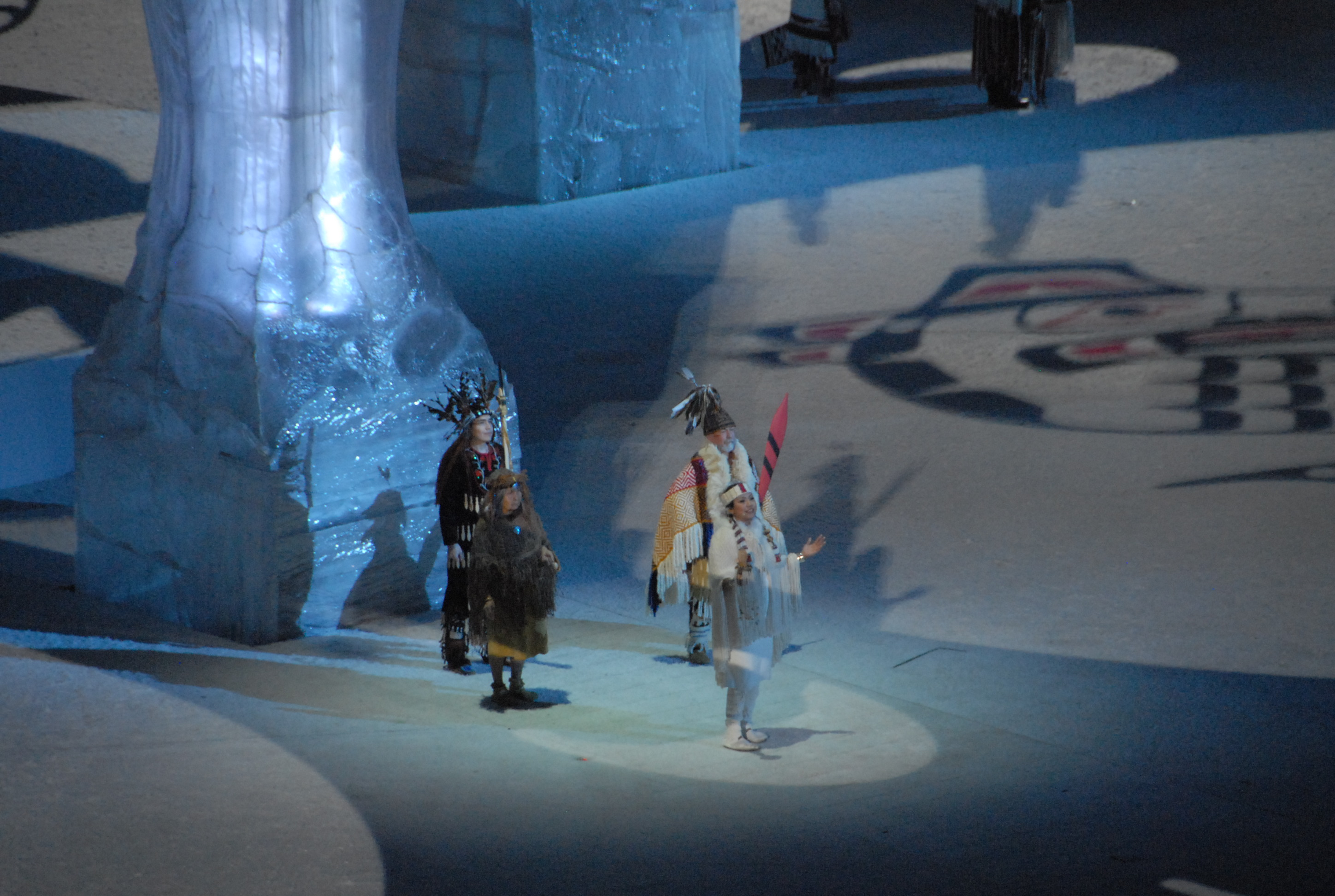 The welcoming of the world by one of the First Nations groups at the 2010 Winter Olympics